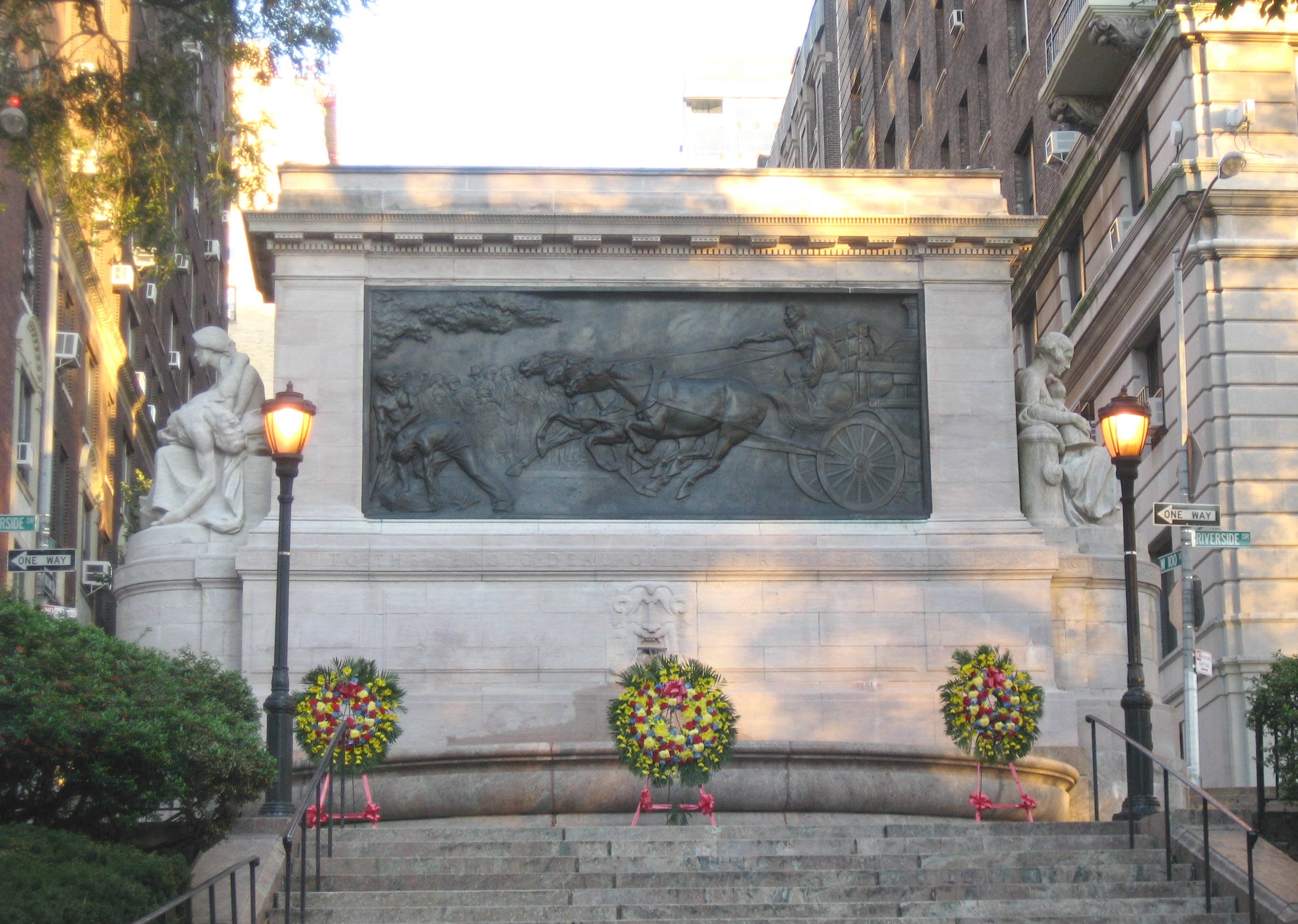 Looking east across Riverside Drive at the West 100th Street Monument to the Heroes of the New York City Fire Department late on a sunny afternoon